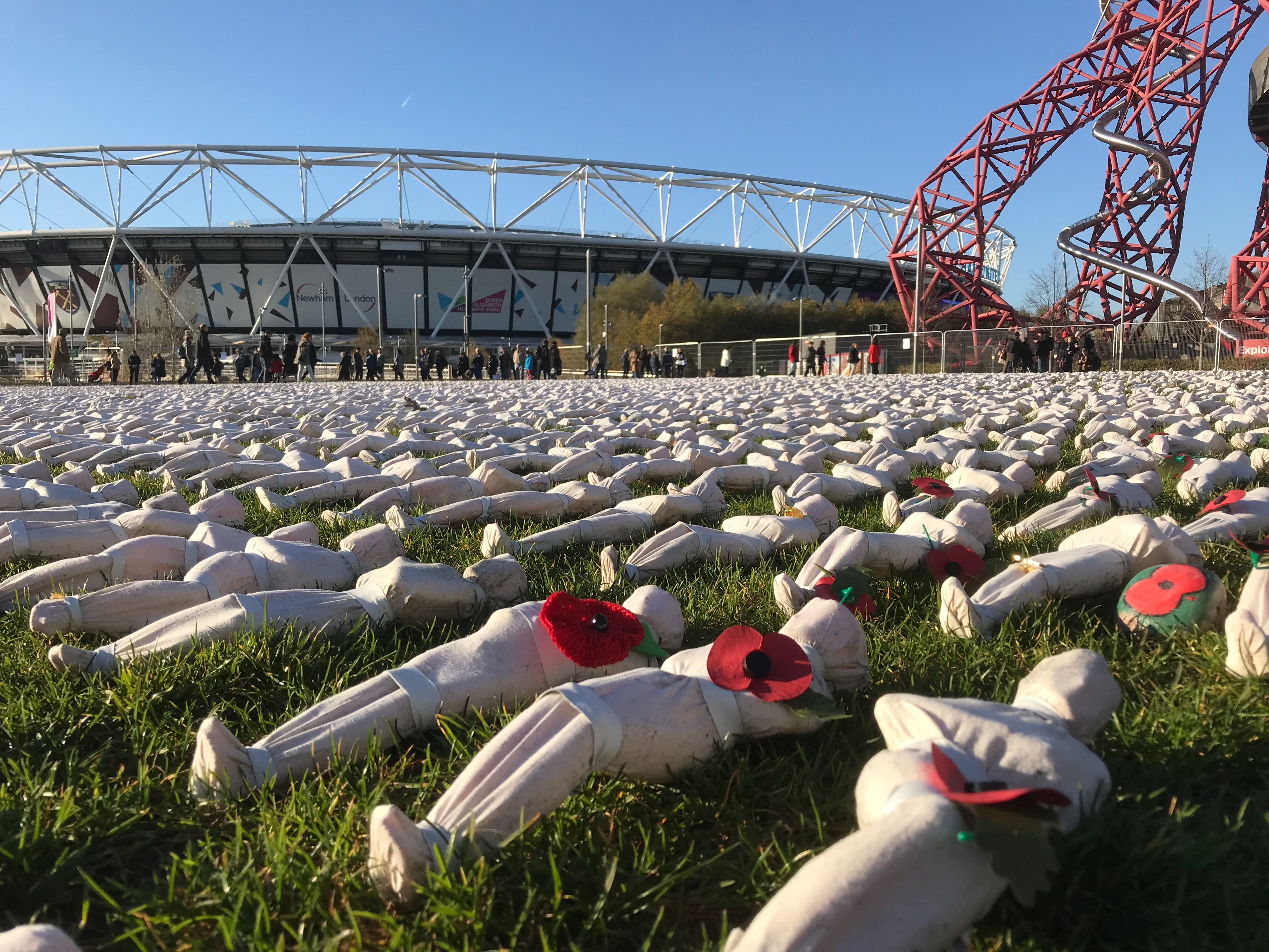 Shrouds of the Somme memorial up close